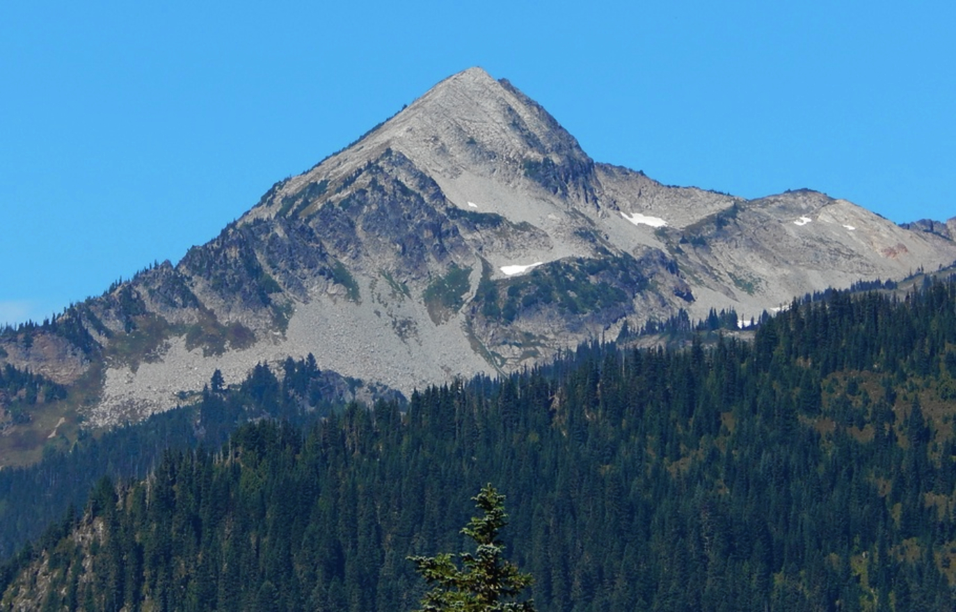 Pyramid Peak 6937' seen from Inspiration Point on Stevens Canyon Road in Mount Rainier National Park.